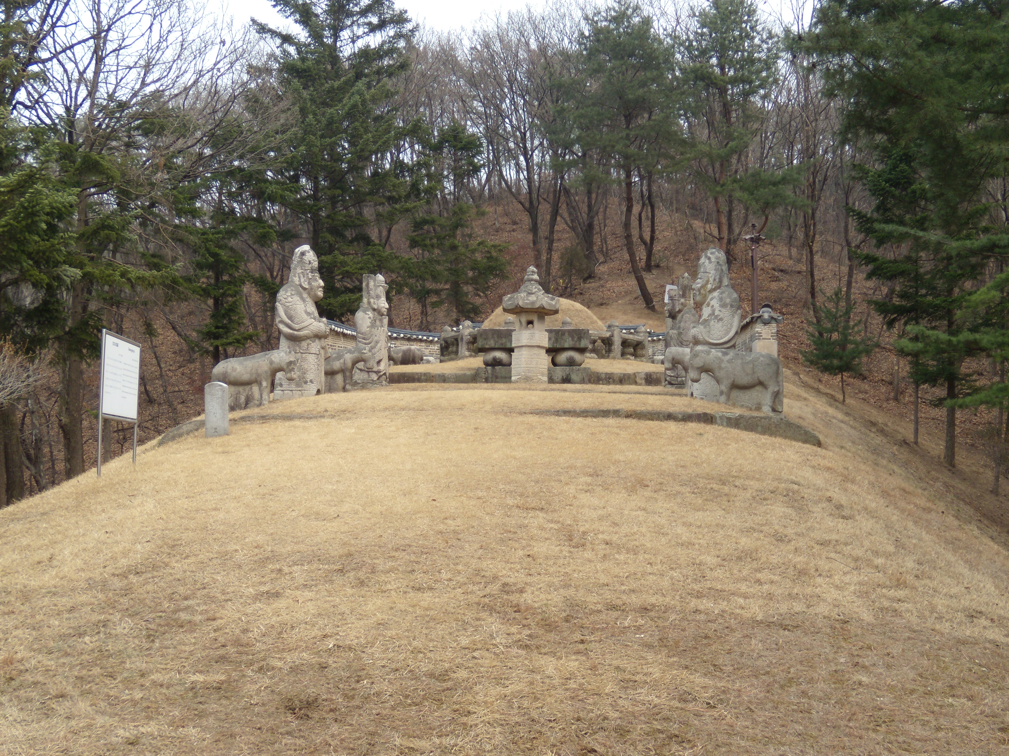 The tomb of Gwanghaegun's mother, concubine Gongbin of the Kim clan